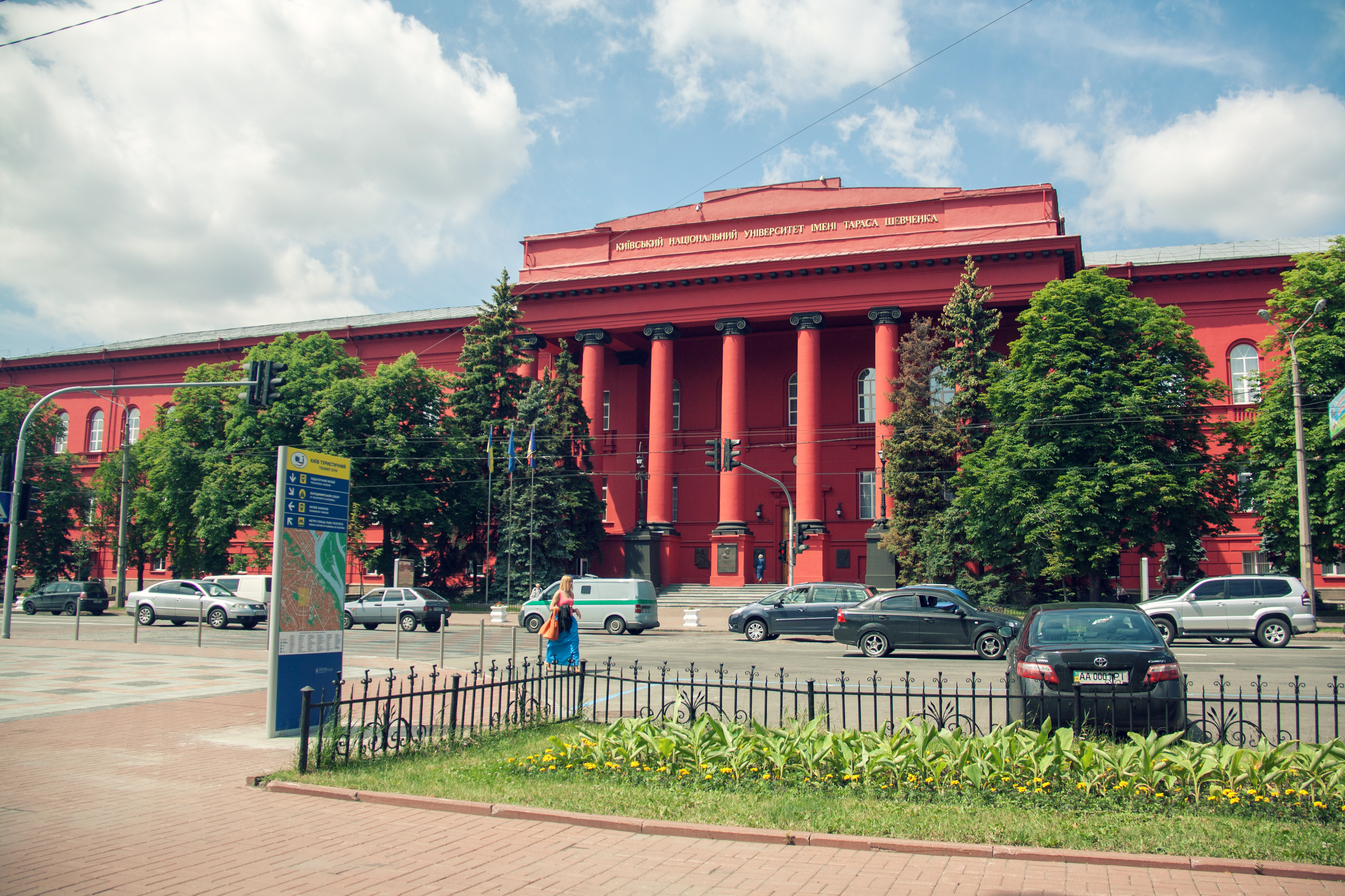 Taras Shevchenko National University of Kyiv, Ucrania